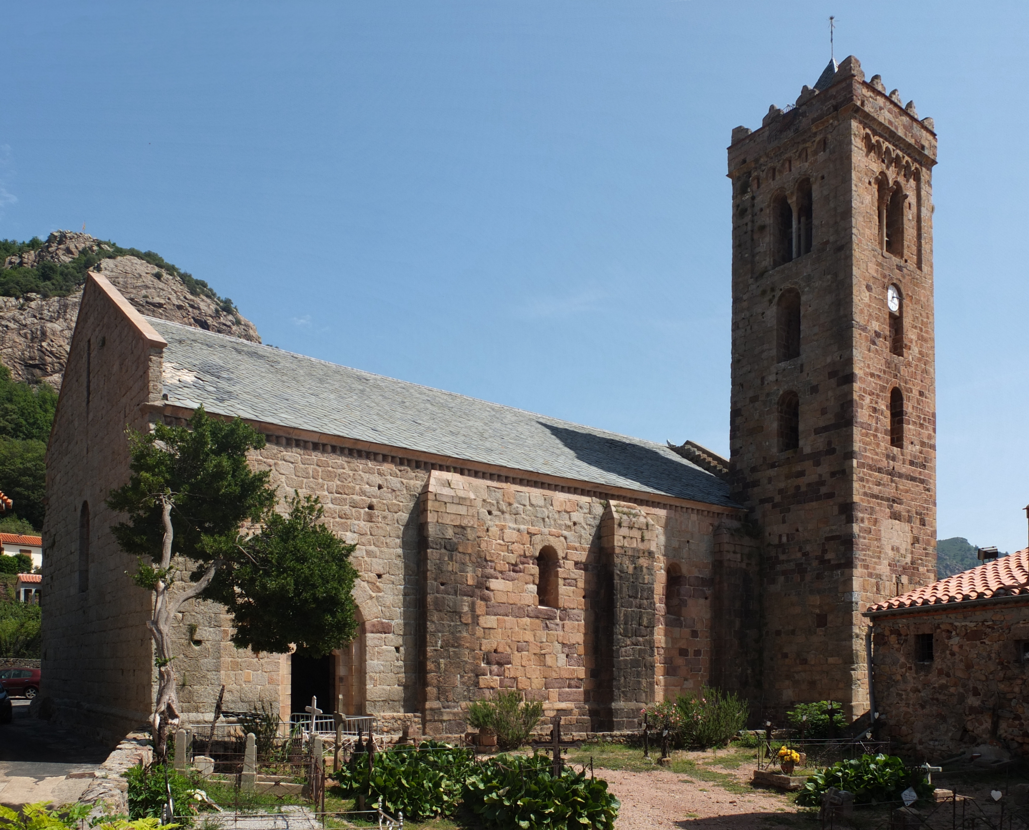 Romanesque church Sainte-Marie, Coustouges, France (view SW)